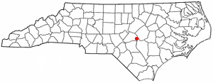 Category:North Carolina Dot Maps